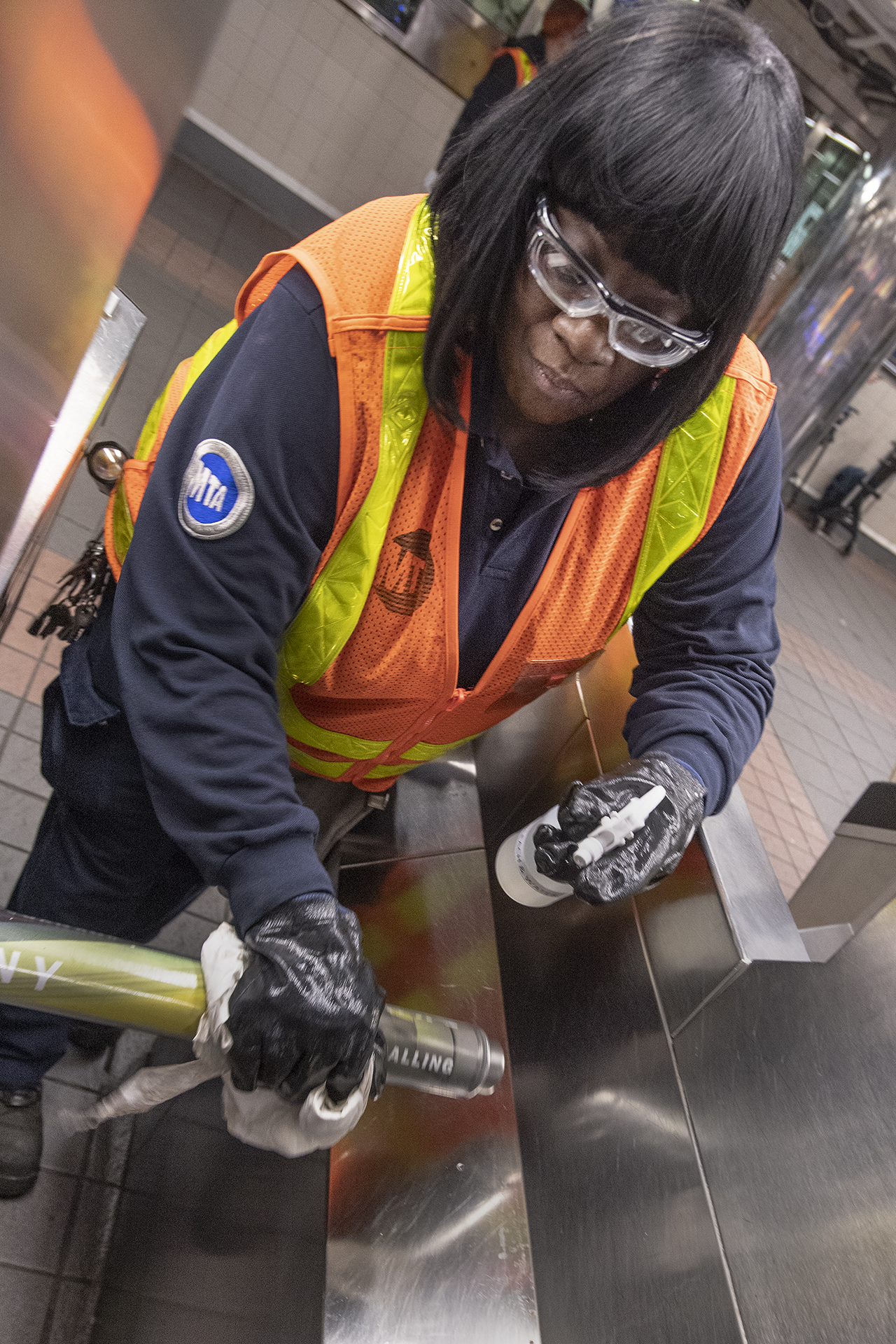 The Metropolitan Transportation Authority (MTA) continues to implement precautions in response to the novel coronavirus (COVID-19). New York City Transit, MTA Bus, Access-A-Ride, Long Island Rail Road and Metro-North are significantly increasing the frequency and intensity of sanitizing procedures at each of its stations and on its full fleet of rolling stock. Trains, cars and buses will experience daily cleanings with the MTA’s full fleet undergoing sanitation every 72 hours. Frequently used surfaces in stations, such as turnstiles, MetroCard and ticket vending machines, and handrails, will be disinfected daily. Photo: Patrick Cashin / MTA New York City Transit